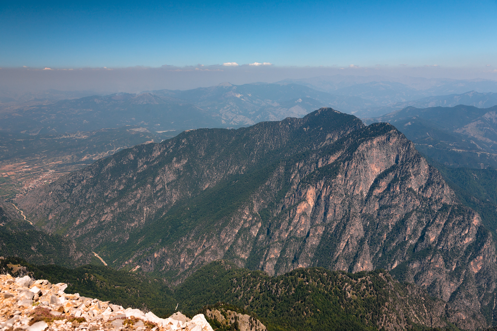 The Trapezitsa summit (2024) in northern Pindus mountains, Greece.